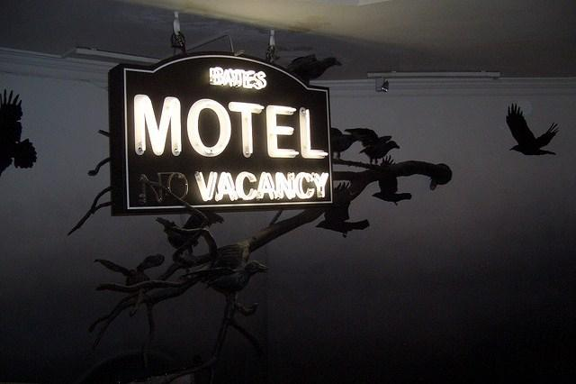 Psycho 1960 film (Madame Tussauds London).